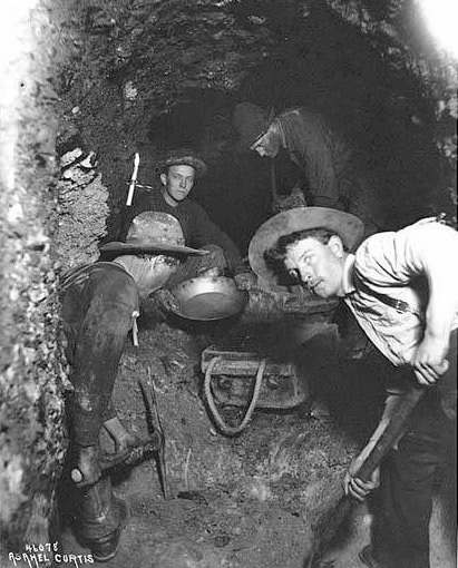 Underground mining at Klondike gold field, 1898